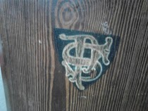 Bench end at St Pancras with interlinked S and P